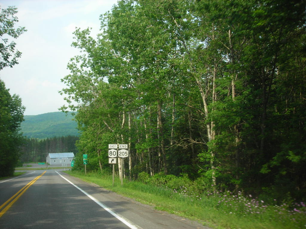 Northern terminus of New York State Route 205 (NY 205) at NY 28 and NY 80